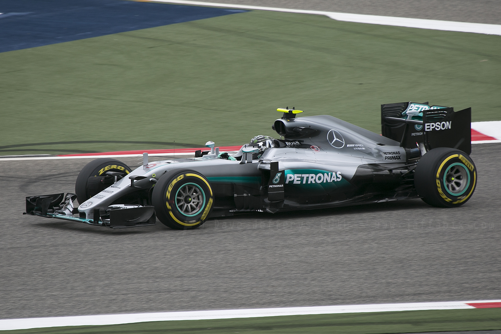 Nico Rosberg at the 2016 Bahrain Grand Prix